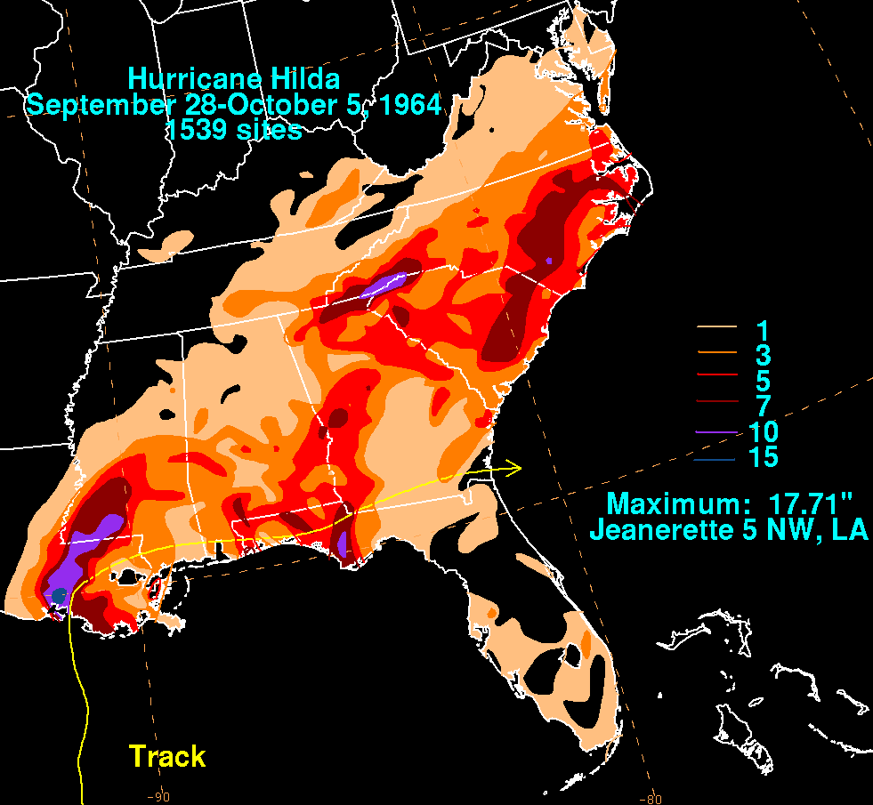 Rainfall produced by Hurricane Hilda during September and October 1964.